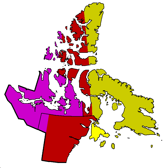 Time Zones of Nunavut